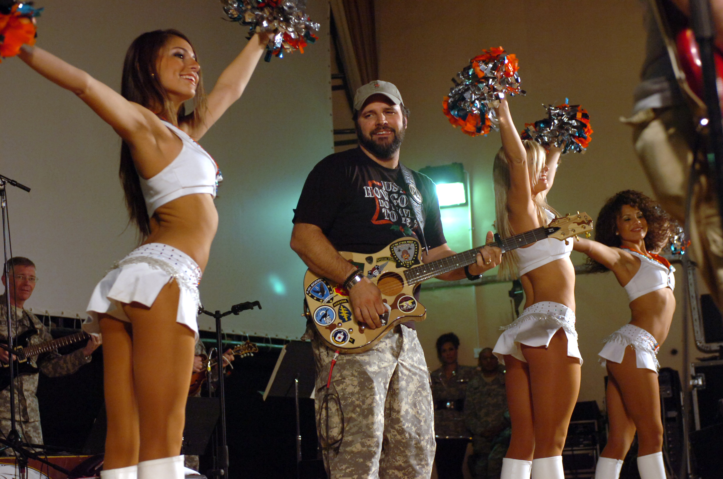 Three Miami Dolphins Cheerleaders pump up the crowd as Country music superstar Mark Wills performs his single "The Crowd Goes Wild" on stage during the "2008 Sergeant Major of the Army Hope and Freedom Tour" at the Sustainer Theater Dec. 21 at Joint Base Balad, near Balad, Iraq. This year's tour marked the 7th annual advent of the "Hope and Freedom Tour", which brings many well-known entertainers to overseas to perform for deployed servicemembers. (U.S. Army photo by Pvt. 1st Class Jesus J. Aranda, Task Force Lightning Public Affairs)